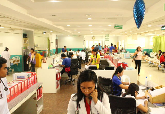 Cagayan Valley Medical Center interior